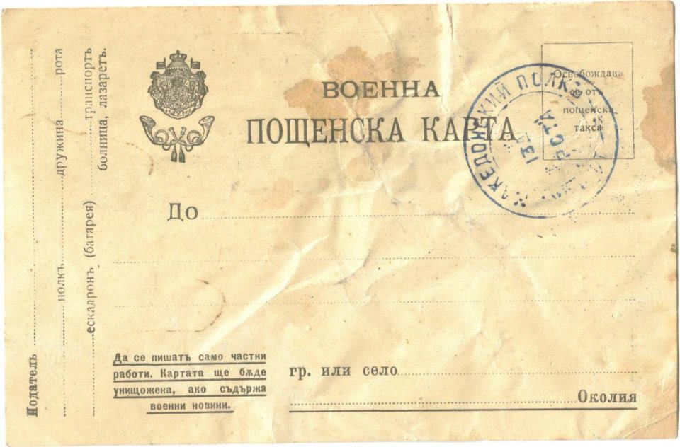 14 Infantry Macedonian Regiment Postcard Back